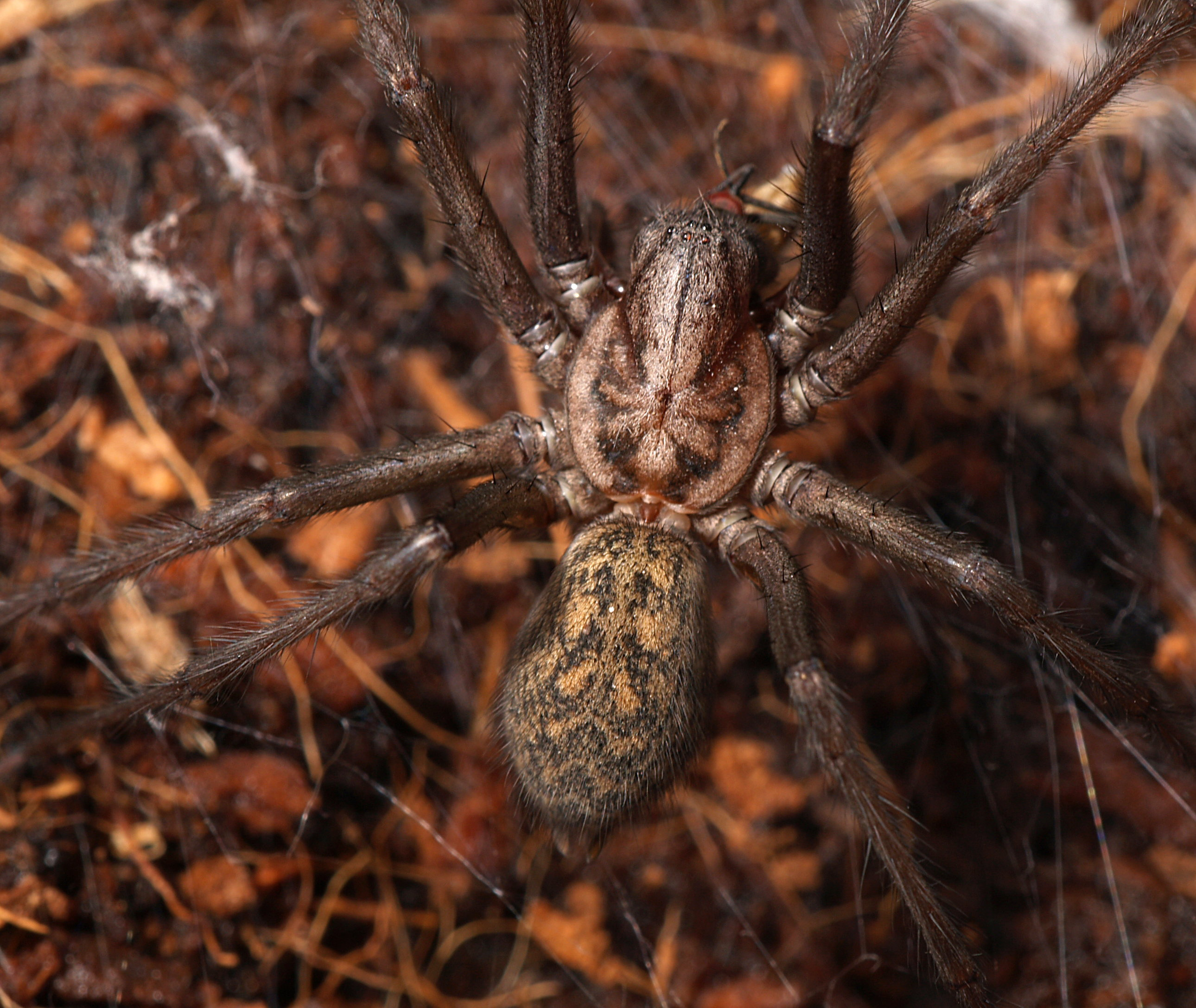 female Tegenaria atrica from Cologne, Germany.